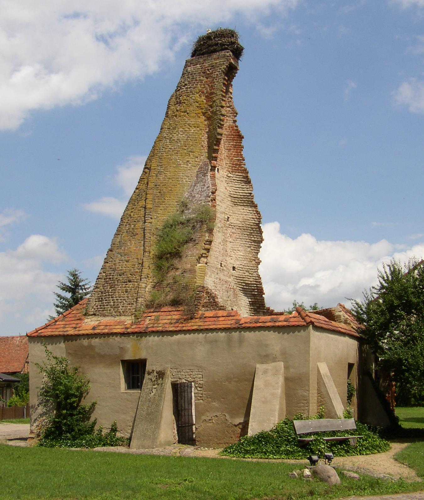 Tower ruin in Mühlenberge-Wagenitz in Brandenburg, Germany